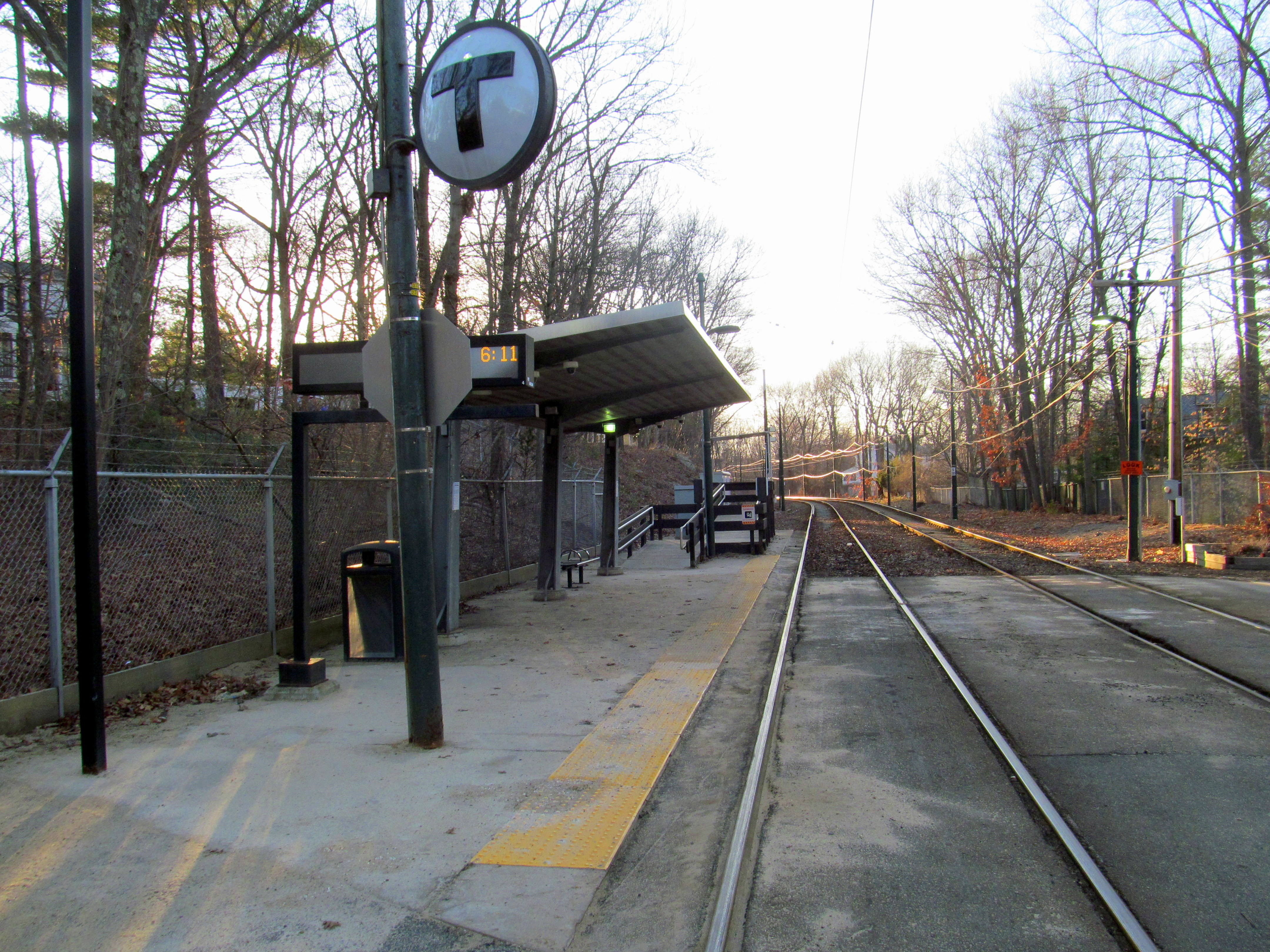 Inbound platform at Capen Street station in March 2016